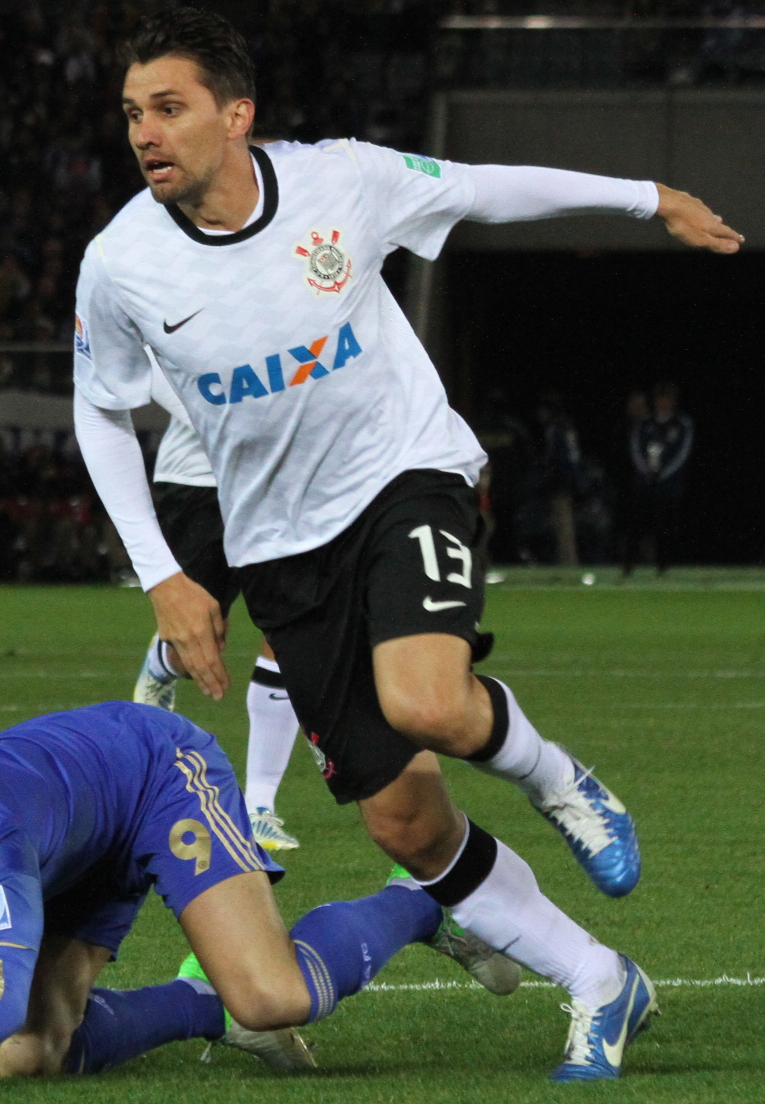 Paulo Andre of Corinthians at the 2012 FIFA Club World Cup.